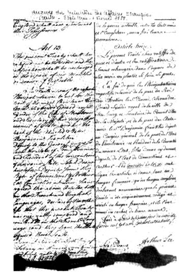 LE TRAITE D'ALLIANCE ENTRE LA FRANCE ET LES ÉTATS-UNIS DE 1778